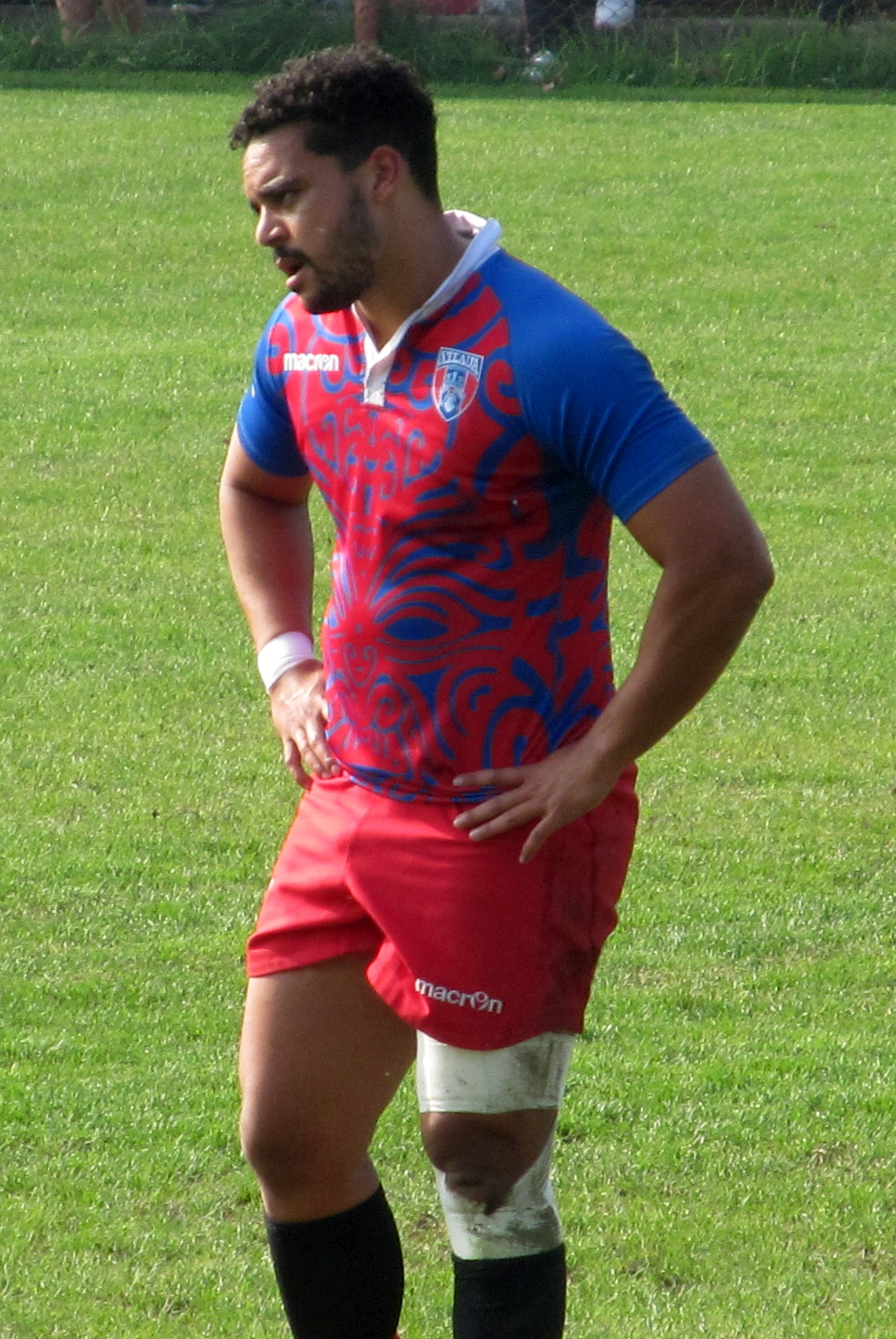 Fijian born Italian-Australian rugby union football player Cokanauto Morisio Elia, player of CSA Steaua București rugby club seen playing during a match against CSM Baia Mare in Round 9 of Romanian Rugby Superliga 2019–20 season in October 2019